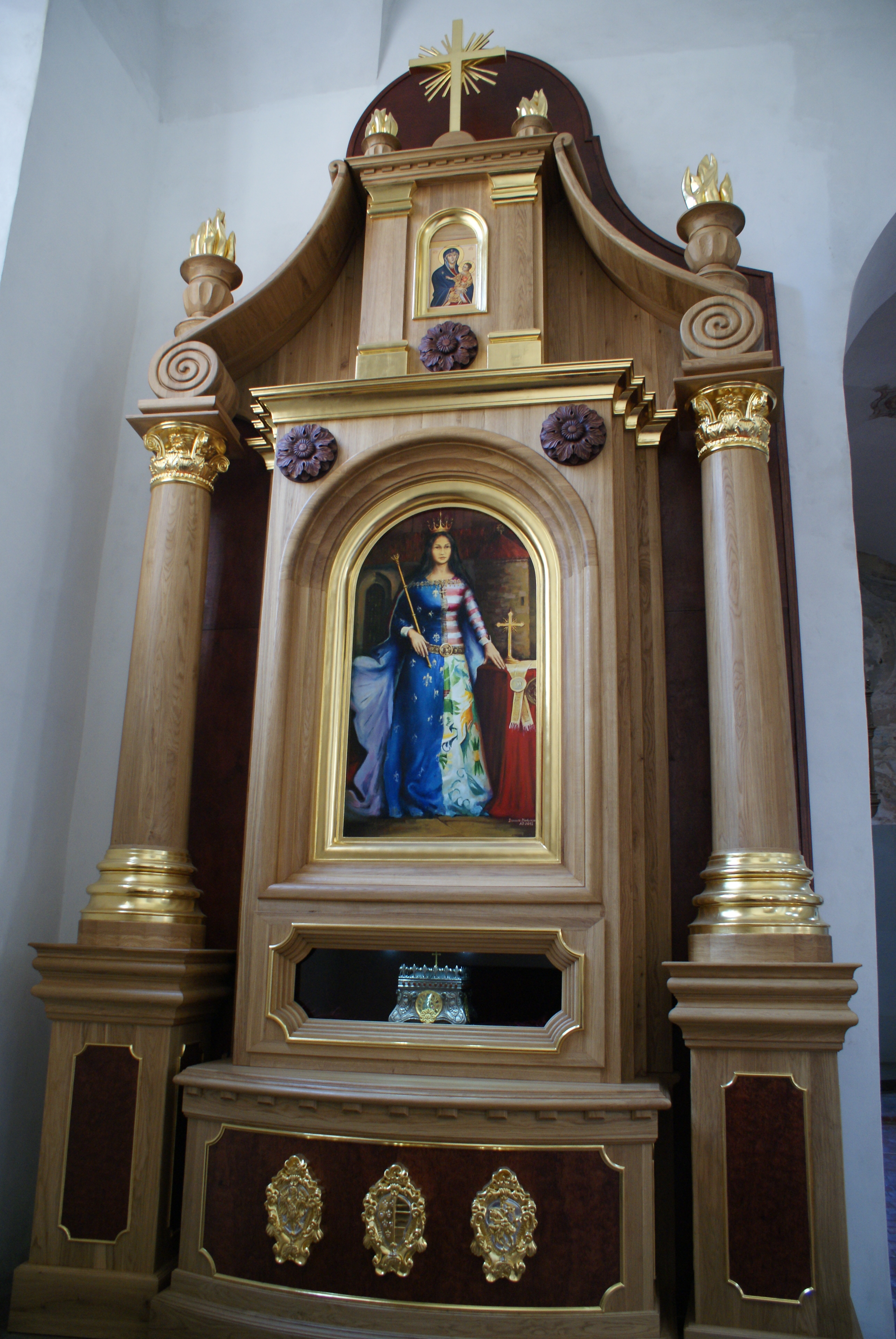 Church of the Assumption of the Blessed Virgin Mary in Vilnius